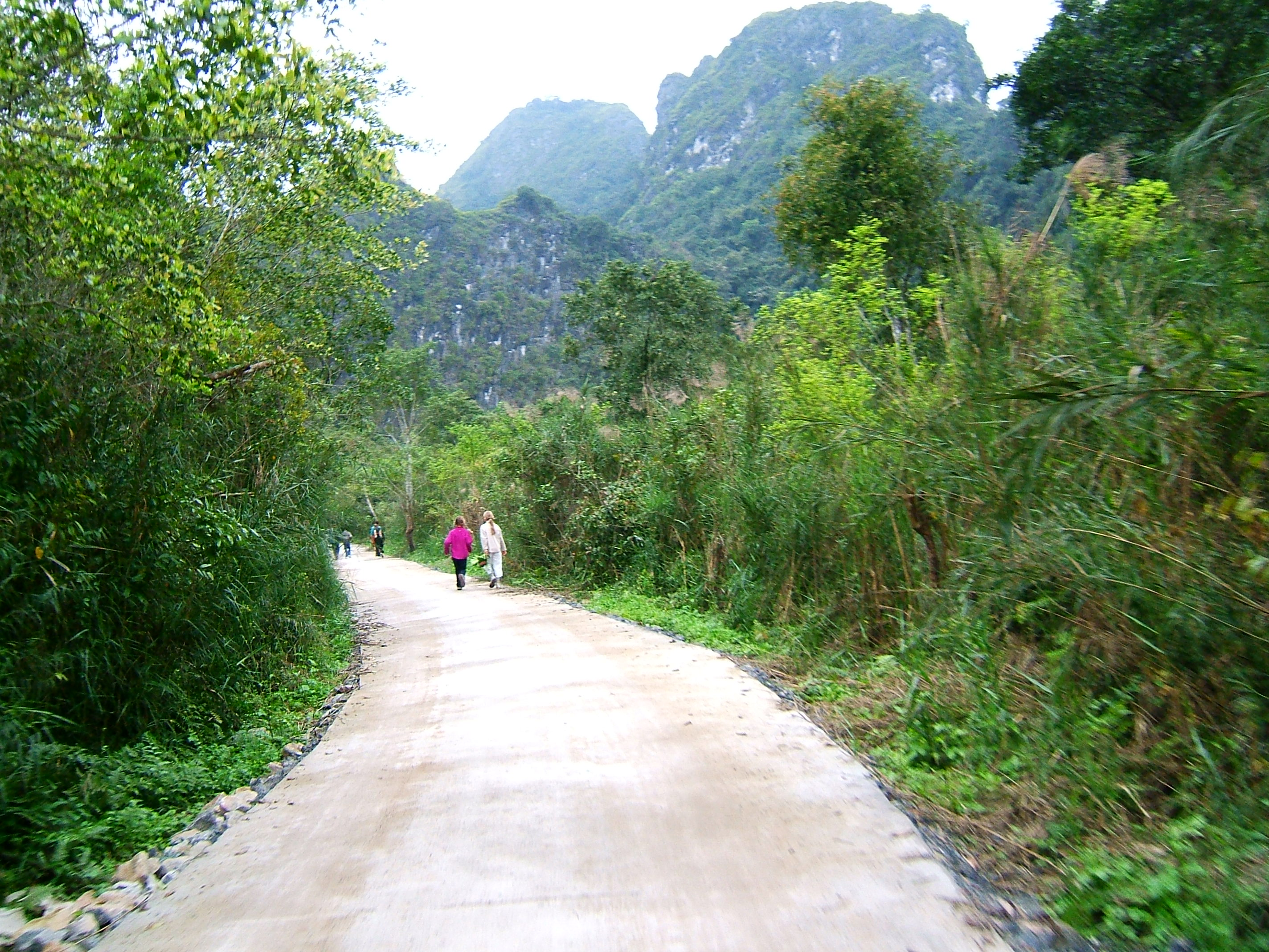 The road enters Cat Ba National Park.